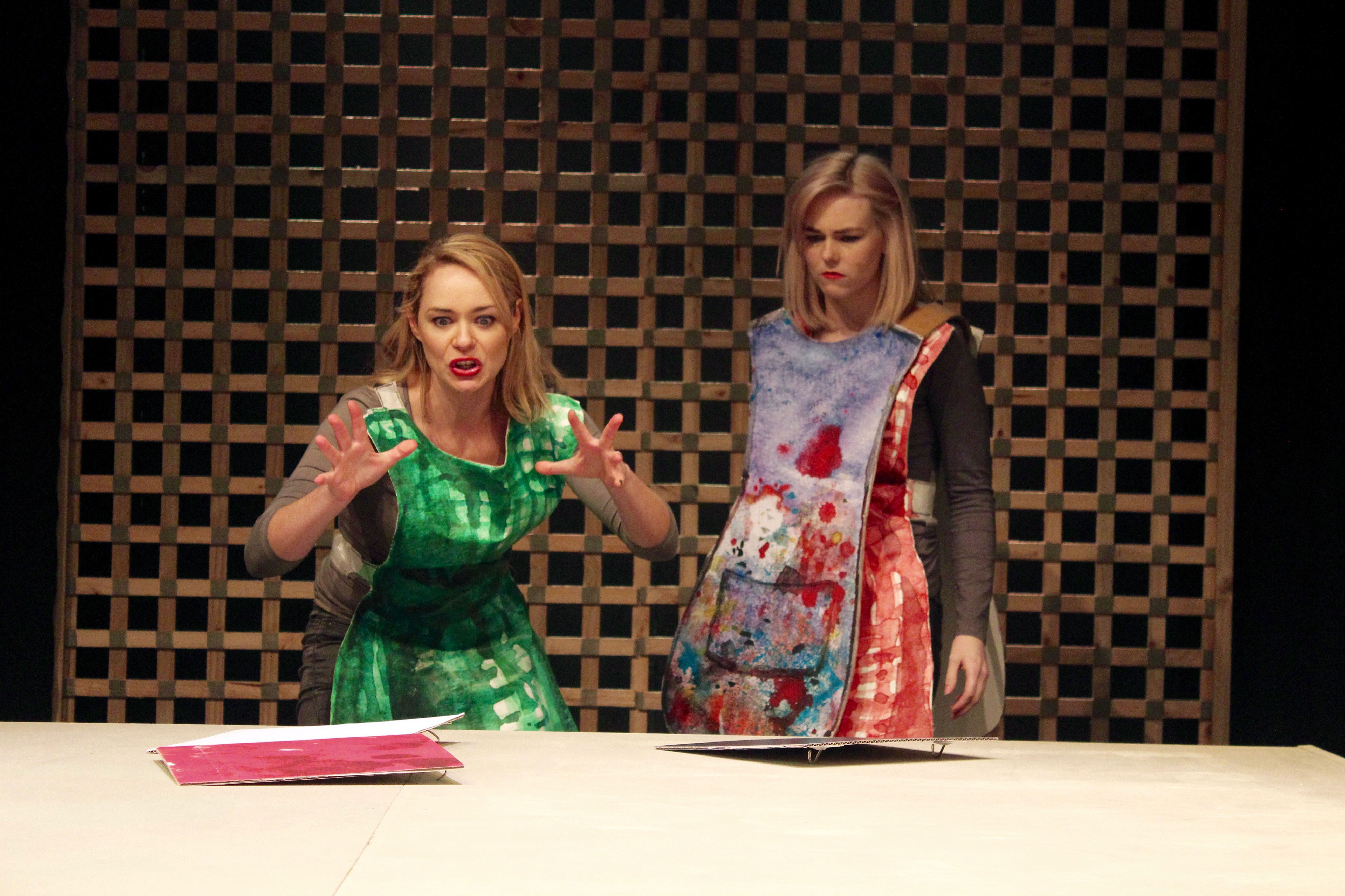 Anni, played by Maya Aleksandra, and Theo, played by Steph Clapp, in Out of the Ordinary.